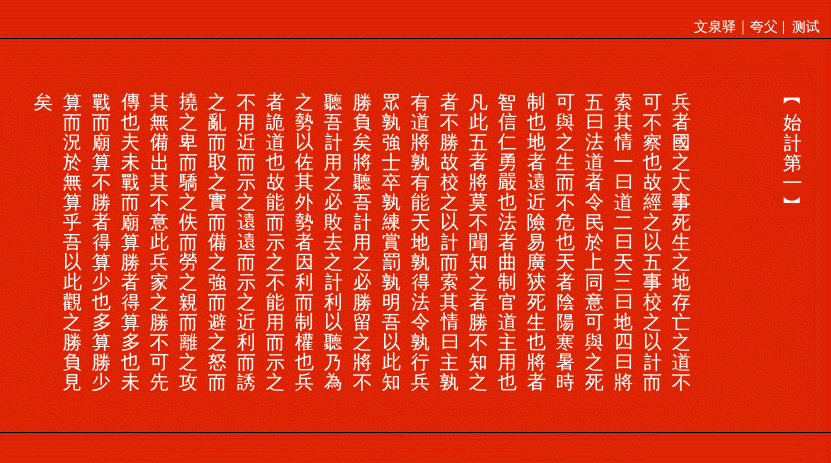 Screenshot of a test document using WenQuanYi Zen Hei v0.5 (Kwafoo)